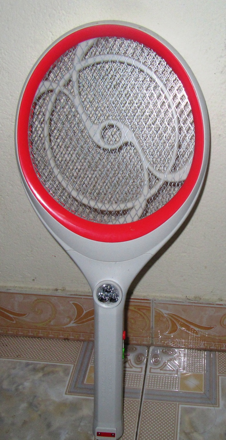 Mosquito Racket